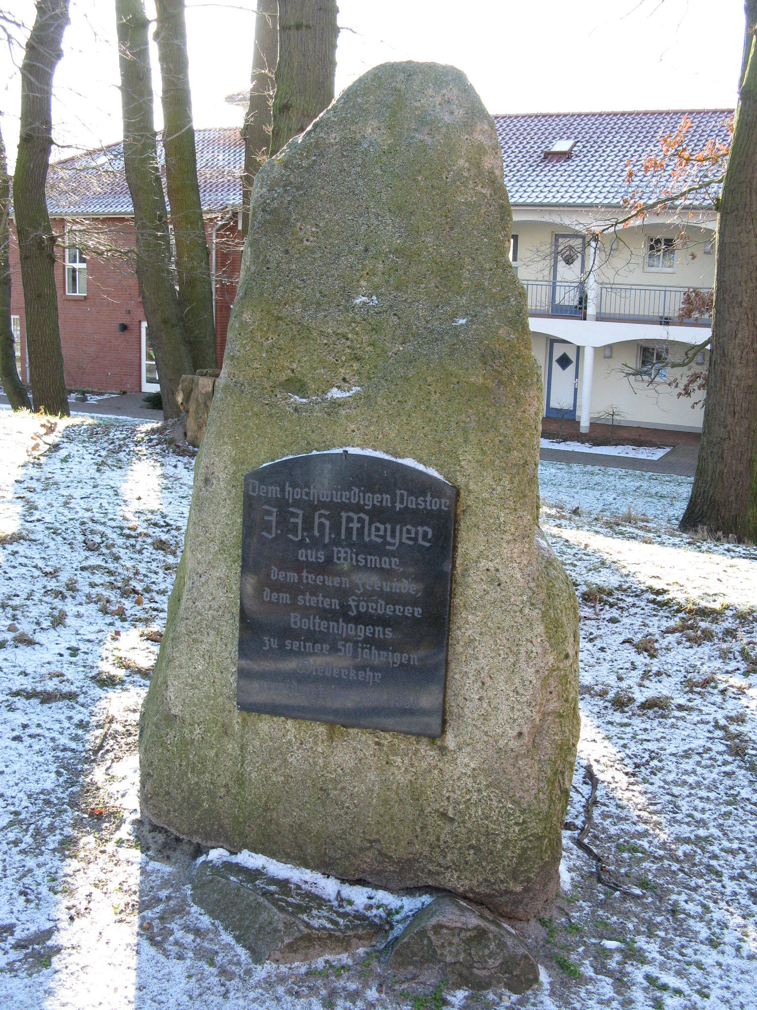 Memorial next to the church in Boltenhagen, Mecklenburg-Vorpommern, Germany